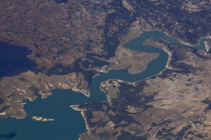 Buendía reservoir, in Spain, in Baños de la Isabela and Ercávica zone.